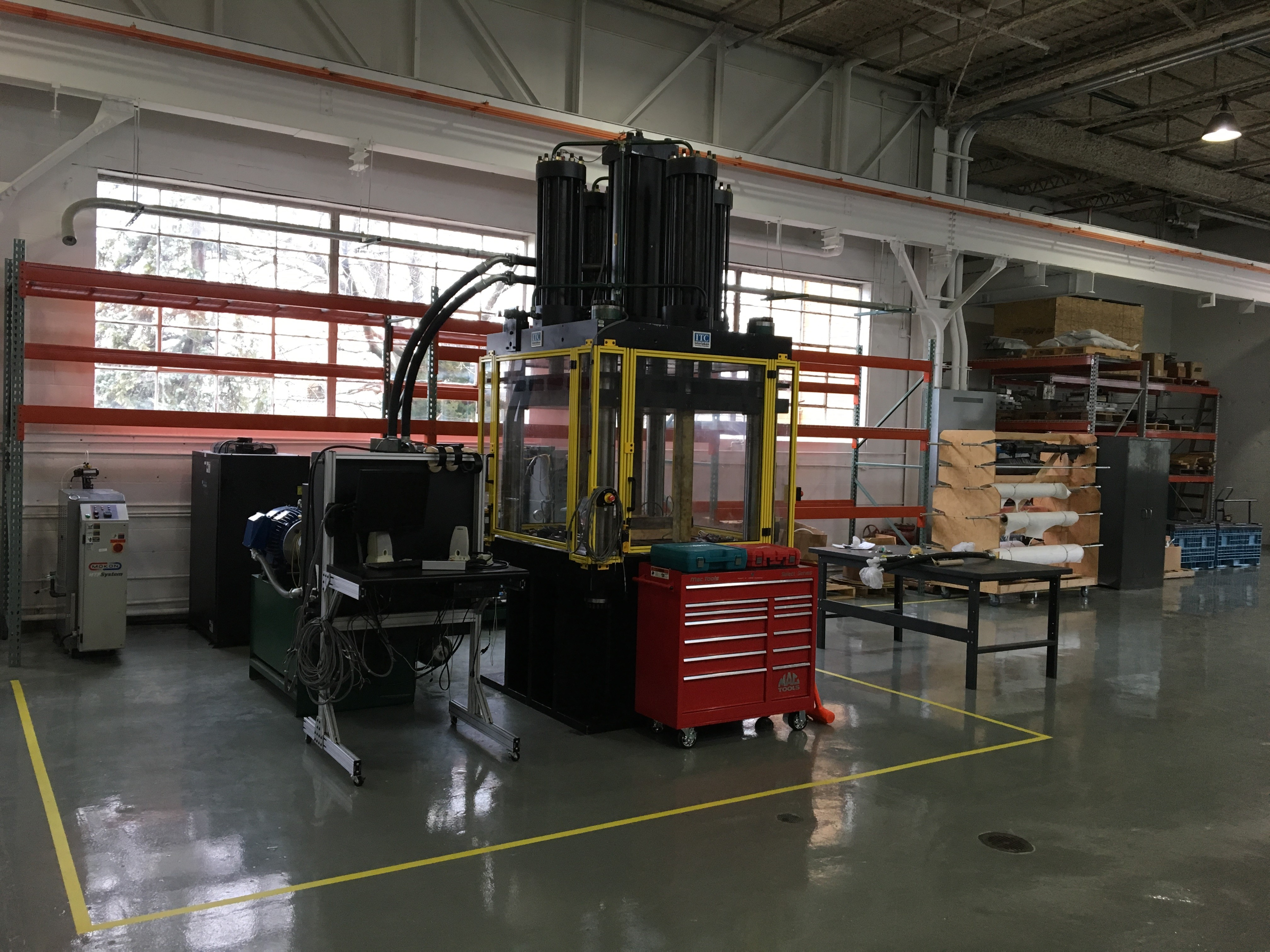 330 ton press located at The Ohio State University